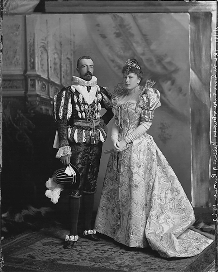 Grand Duke Michael Michailovitch of Russia (1861-1929) and his wife Sophie of Merenberg (1868-1927) as King Henry IV of France and Gabrielle d'Estrées